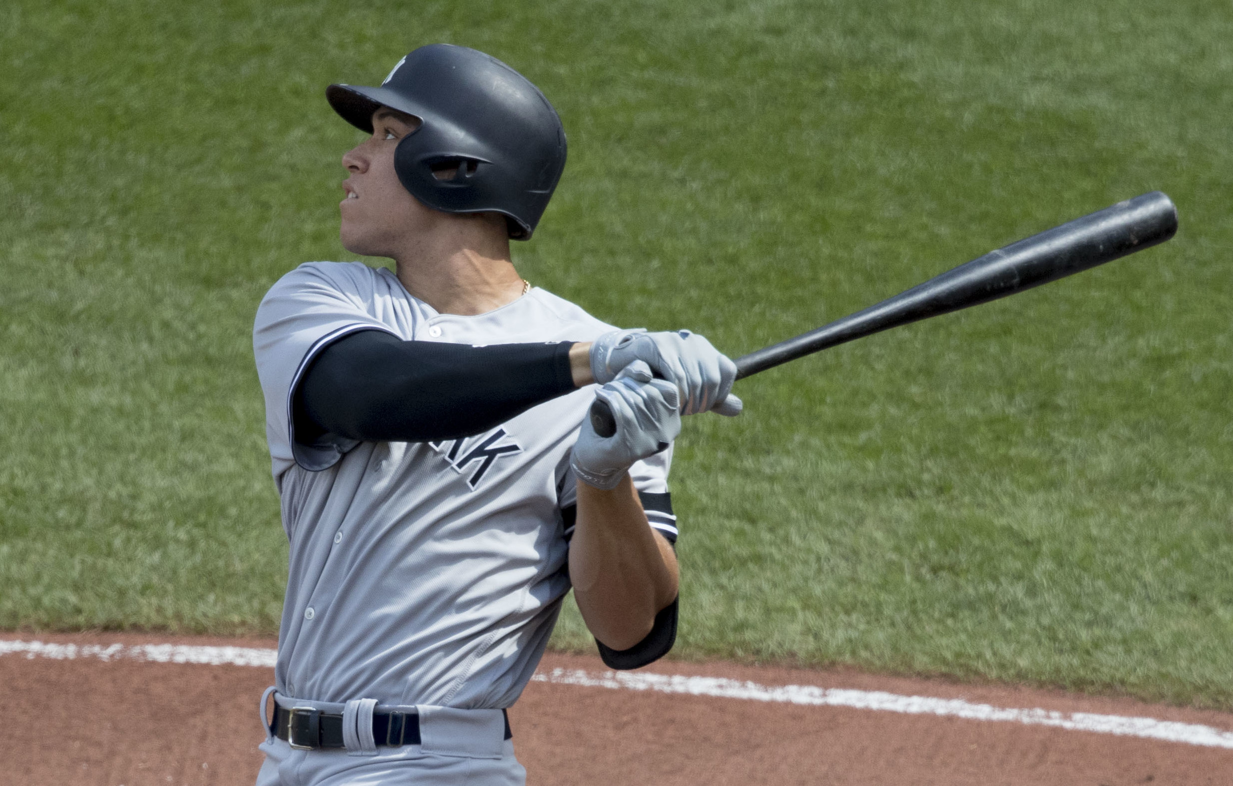 Aaron Judge of the New York Yankees in 2017.